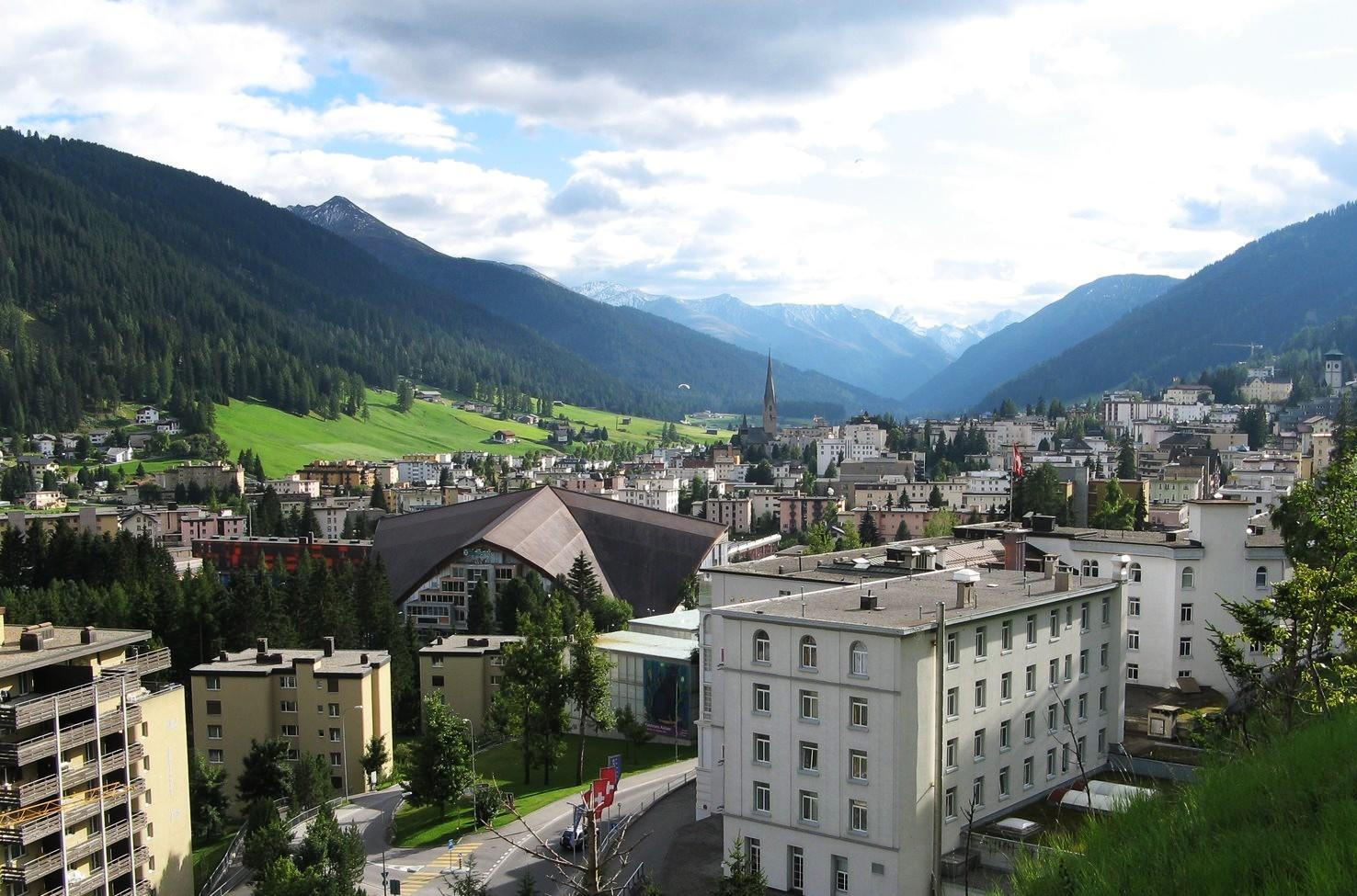 Davos, Graubünden